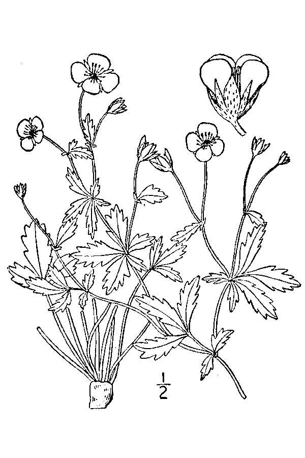 Potentilla anglica Laicharding - English cinquefoil